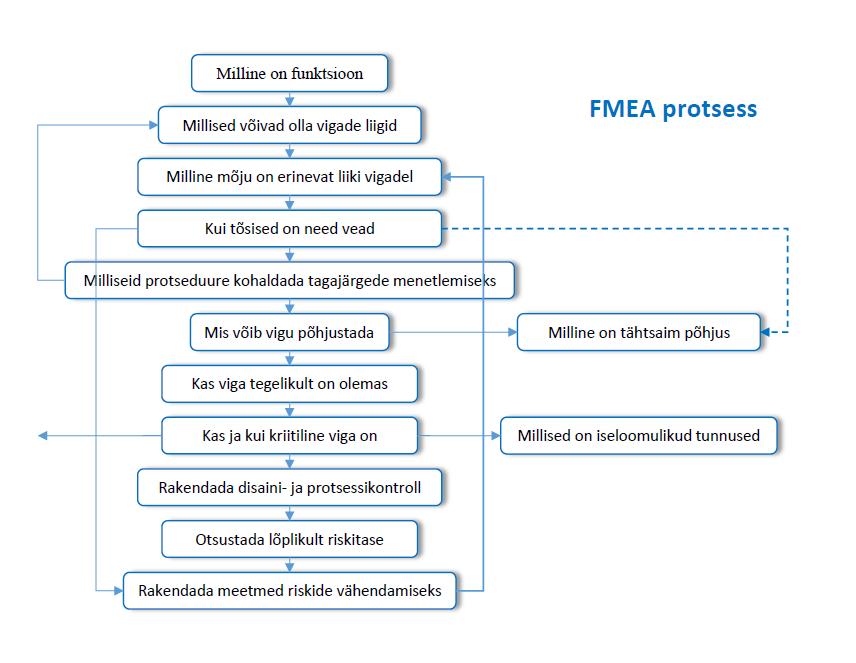 FMEA process